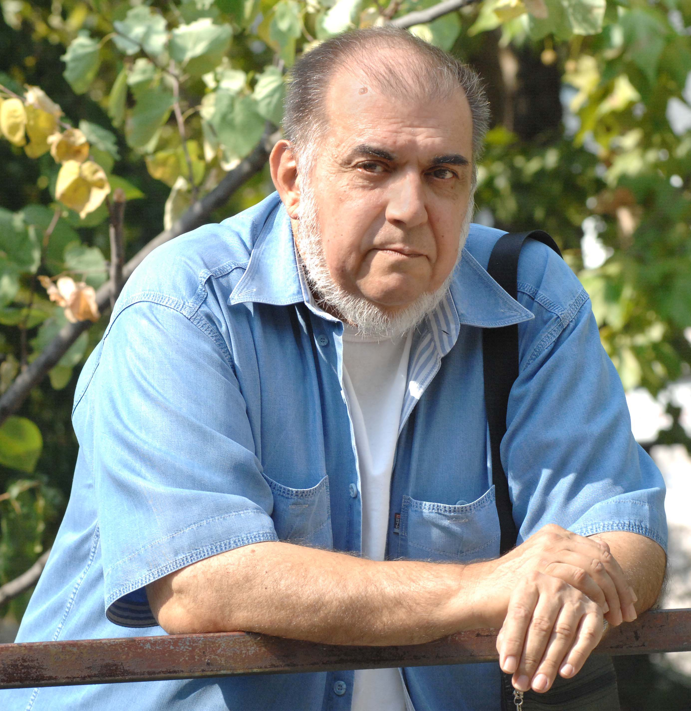 Srba Ignjatovic, Serbian writer and critic. andjela stevanovic intervju